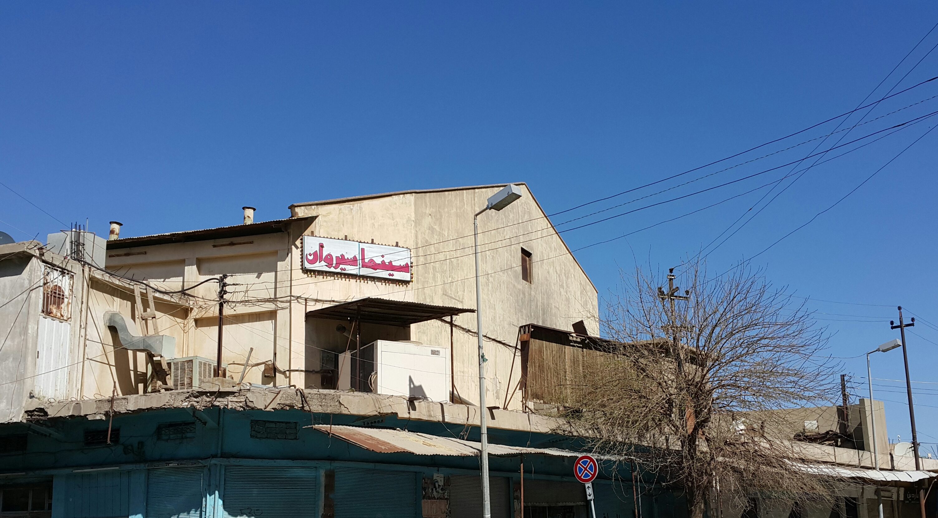 cinema sirwan one of oldest cinema in erbil